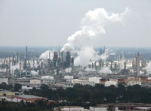 ExxonMobil facility in Baton Rouge